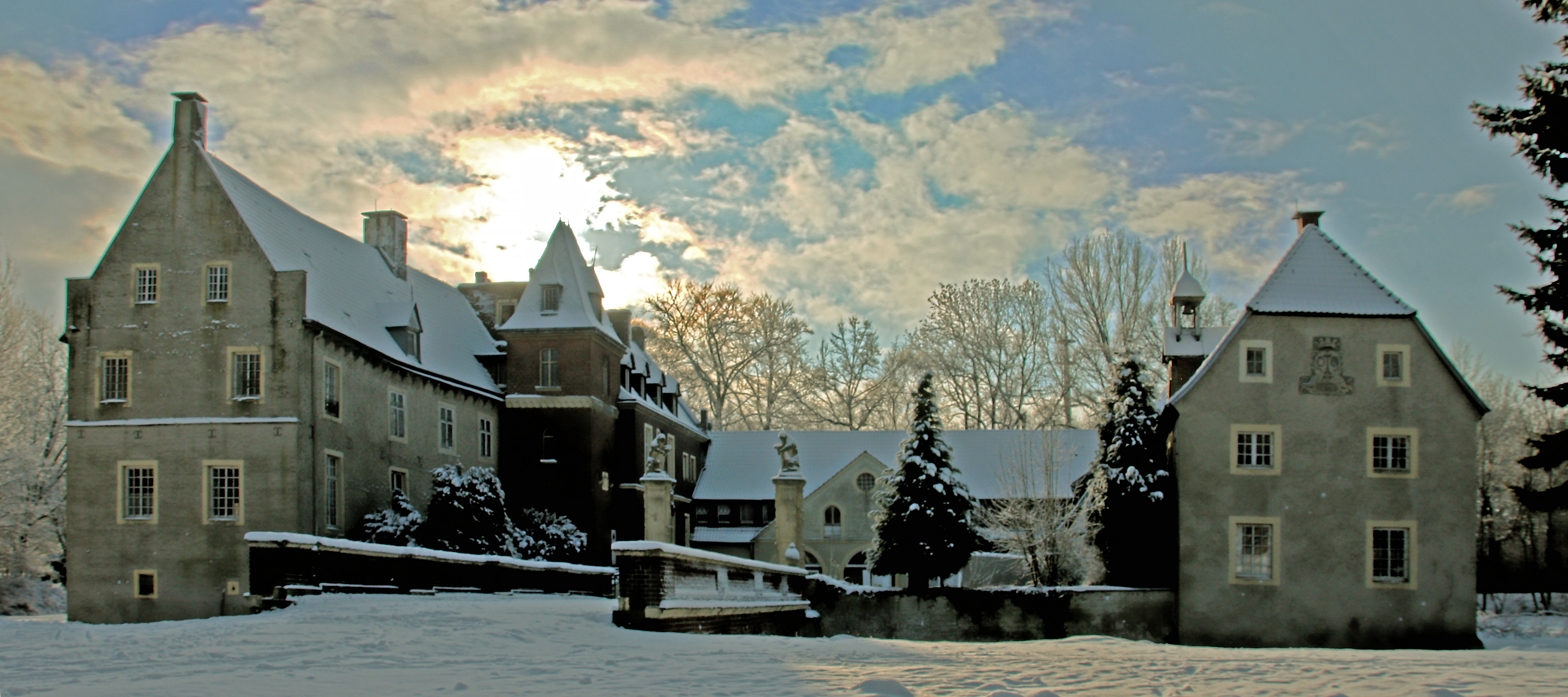 The water castle in Senden, Westphalia